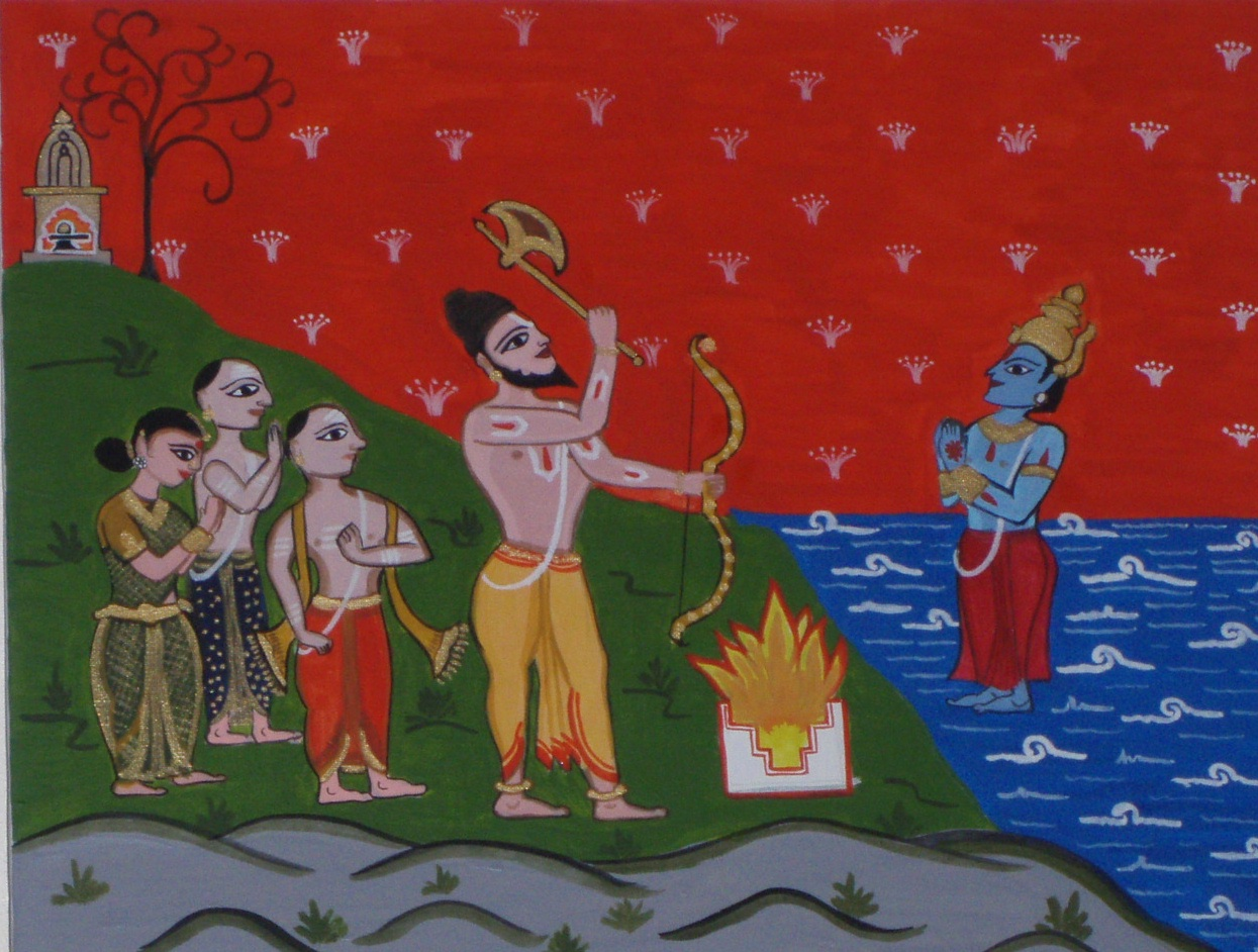 This painting showing Lord Parasurama, an avatar of Lord Vishnu asking Lord Varuna, God of the waters to recede to make land known as Kerala from Kanyakumari to Gokarna for the Brahmins. A number of myths and legends persist concerning the origin of Kerala. One such myth is the creation of Kerala by Parasurama, a warrior sage. The Brahminical myth proclaims that Parasurama, an avatar of Mahavishnu, threw his battle axe into the sea. As a result, the land of Kerala arose and was reclaimed from the waters.Parasurama was the incarnation of Maha Vishnu. He was the sixth of the ten avatars (incarnation) of Vishnu. The word Parasu means 'axe' in Sanskrit and therefore the name Parasurama means 'Ram with Axe'. The aim of his birth was to deliver the world from the arrogant oppression of the ruling caste, the Kshatriyas. He killed all the male Kshatriyas on earth and filled five lakes with their blood. After destroying the Kshatriya kings, he approached assembly of learned men to find a way of penitence for his sins. He was advised that, to save his soul from damnation, he must hand over the lands he had conquered to the Brahmins. He did as they advised and sat in meditation at Gokarna. There, Varuna -the God of the Oceans and Bhumidevi - Goddess of Earth blessed him. From Gokarna he reached Kanyakumari and threw his axe northward across the ocean. The place where the axe landed was Kerala. It was 160 katam (an old measure) of land lying between Gokarna and Kanyakumari. Puranas say that it was Parasuram who planted the 64 Brahmin families in Kerala, whom he brought down from the north in order to expiate his slaughter of the Kshatriyas. According to the puranas, Kerala is also known as Parasurama Kshetram, ie., 'The Land of Parasurama', as the land was reclaimed from sea by him.